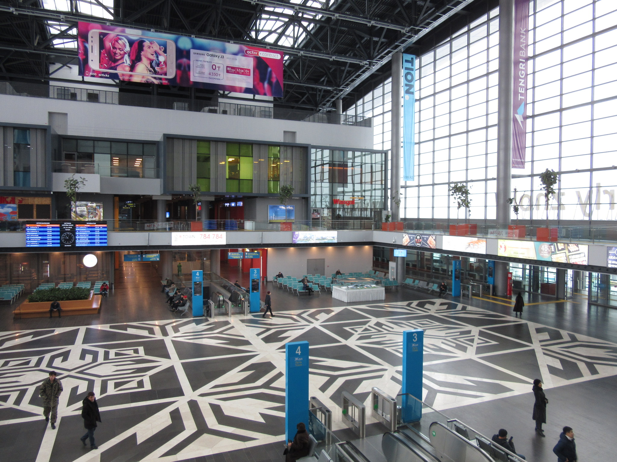 Astana Nurly Jol station 2018